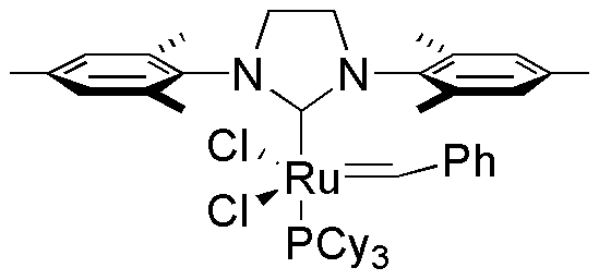 Discription: second generation Grabbus catalyst Made with ChemDraw